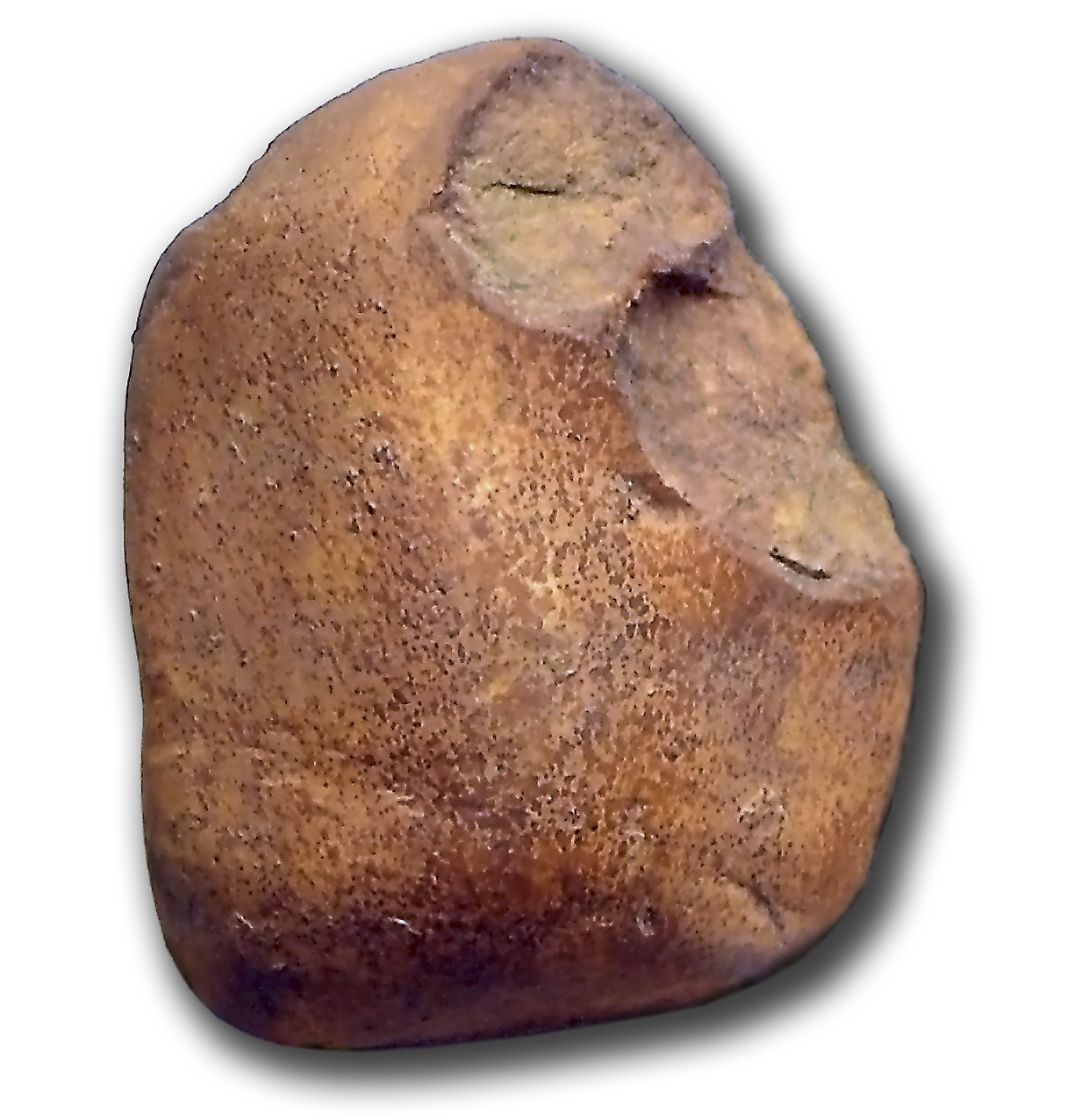 Chopper in quartzite, its comes from the bed TD-6 of "Gran dolina" in Atapuerca (Burgos, Spain) and it is dated in 780,000 years